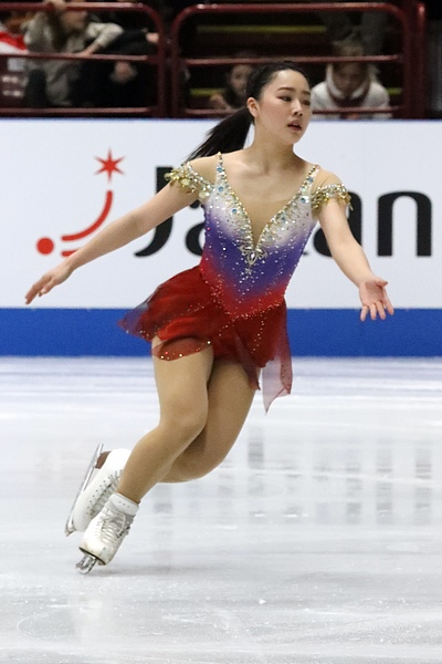 Photos – World Championships 2018 – Ladies (Wakaba HIGUCHI JPN – Silver Medal)